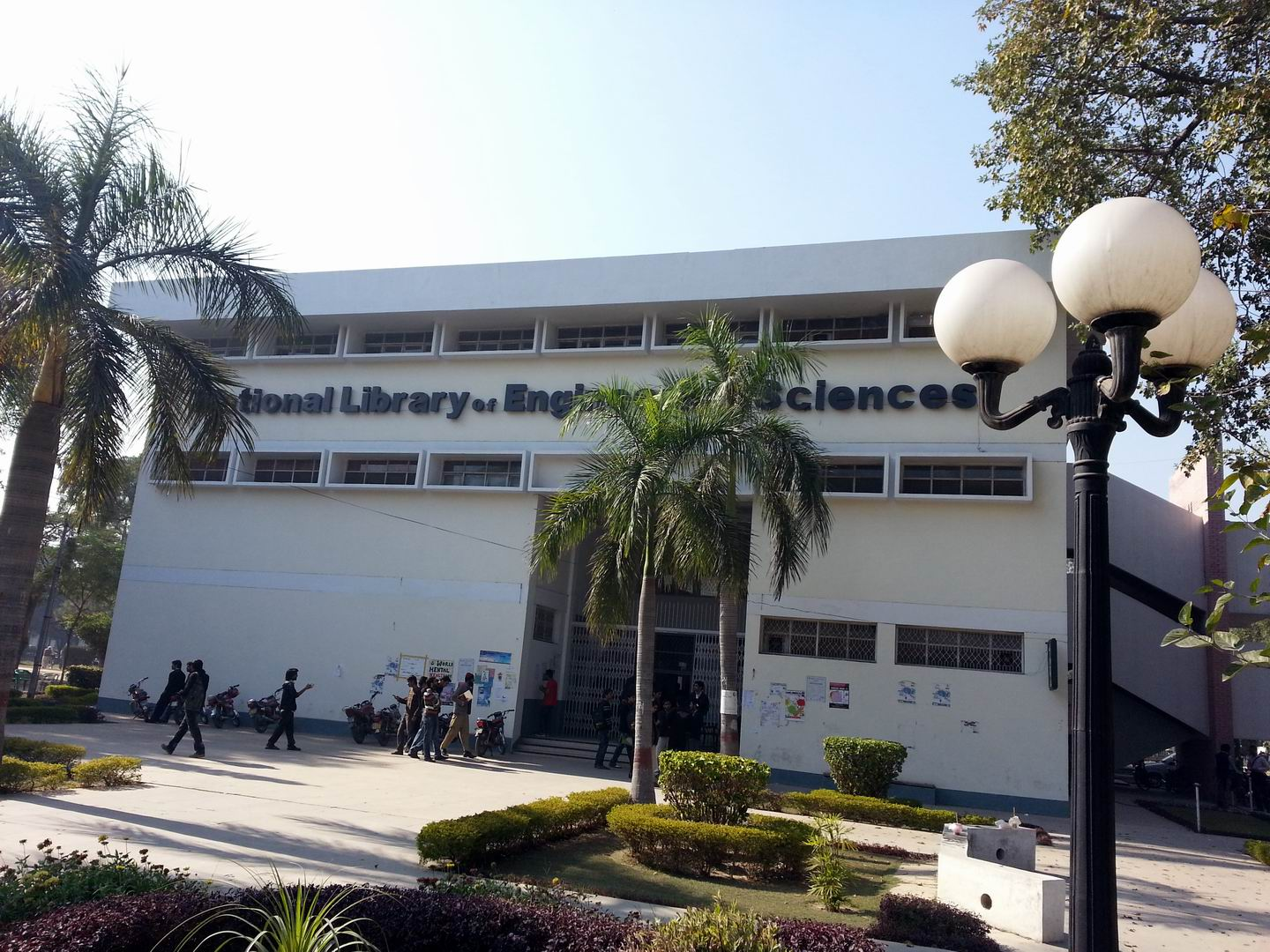 UET Library